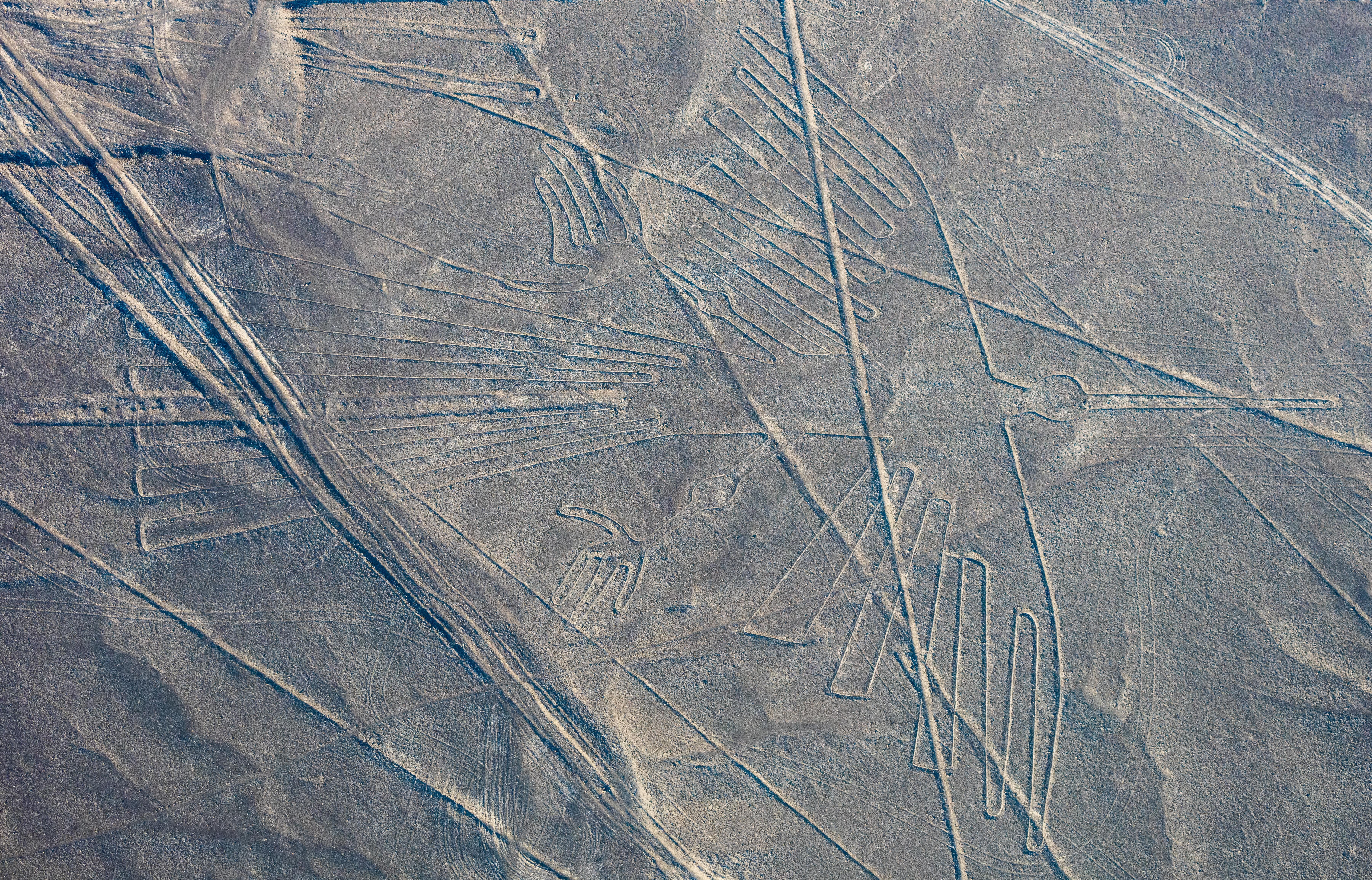 Aerial view of the "Condor", one of the geoglyphs of the Nazca Lines, which are located in the Nazca Desert in southern Peru. The geoglyphs of this UNESCO World Heritage Site (since 1994) are spread over a 80 km (50 mi) plateau between the towns of Nazca and Palpa and are, according to some studies, between 500 B.C. and 500 A.D. old.